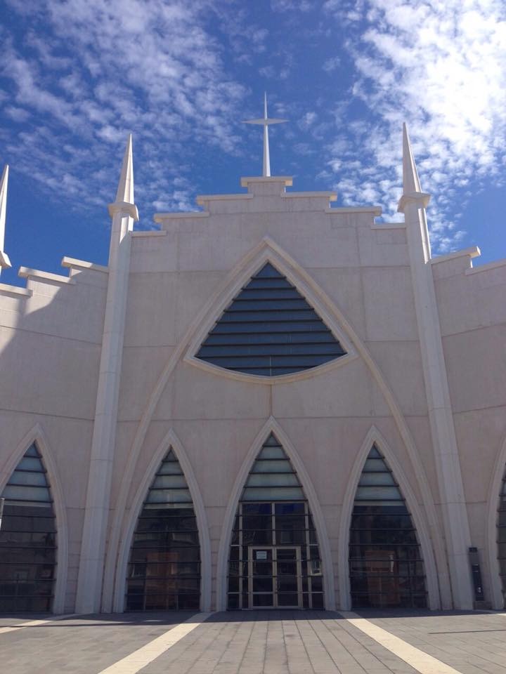 Church of the Sacred Heart of Jesus